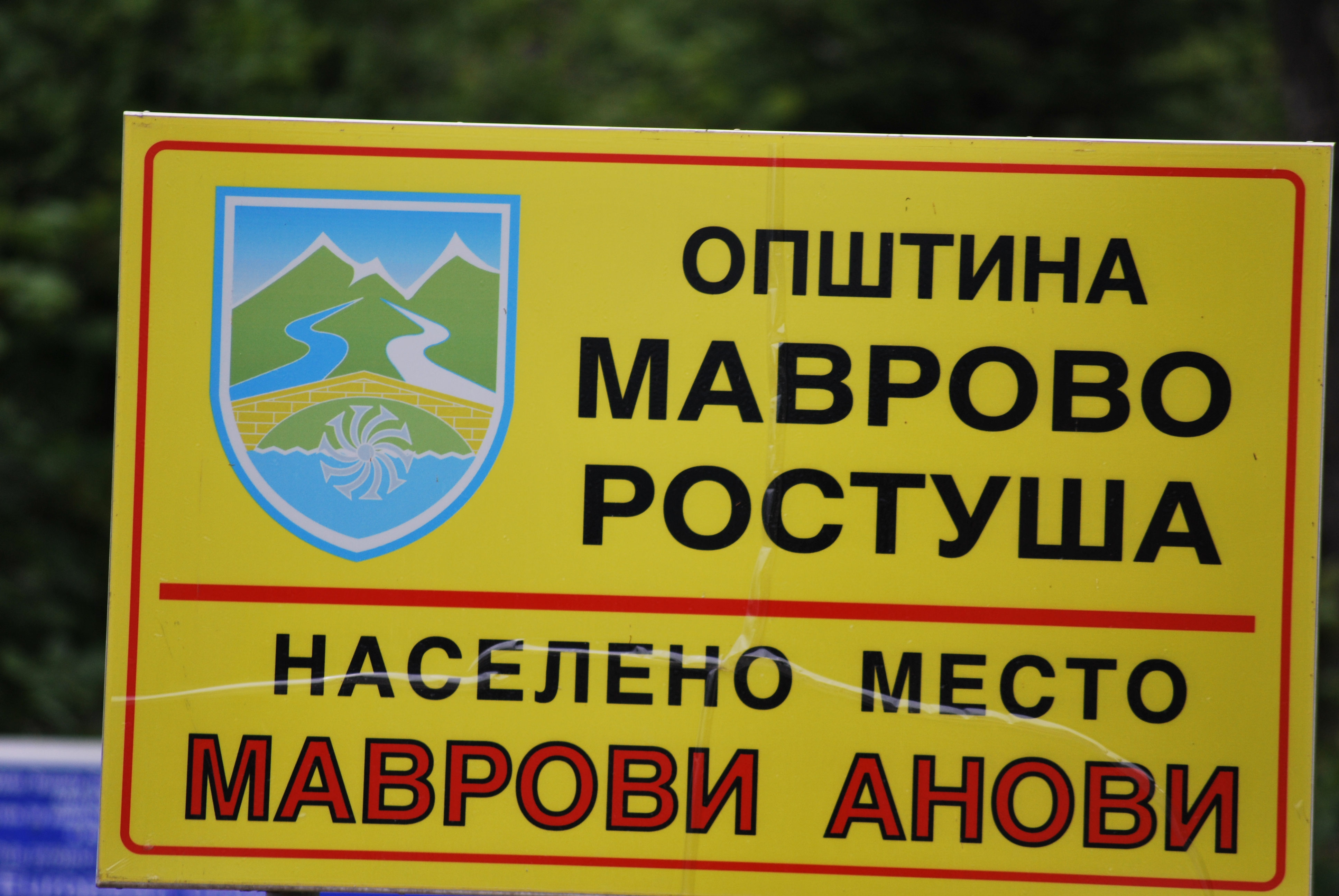 Mavrovi Anovi, Macedonia